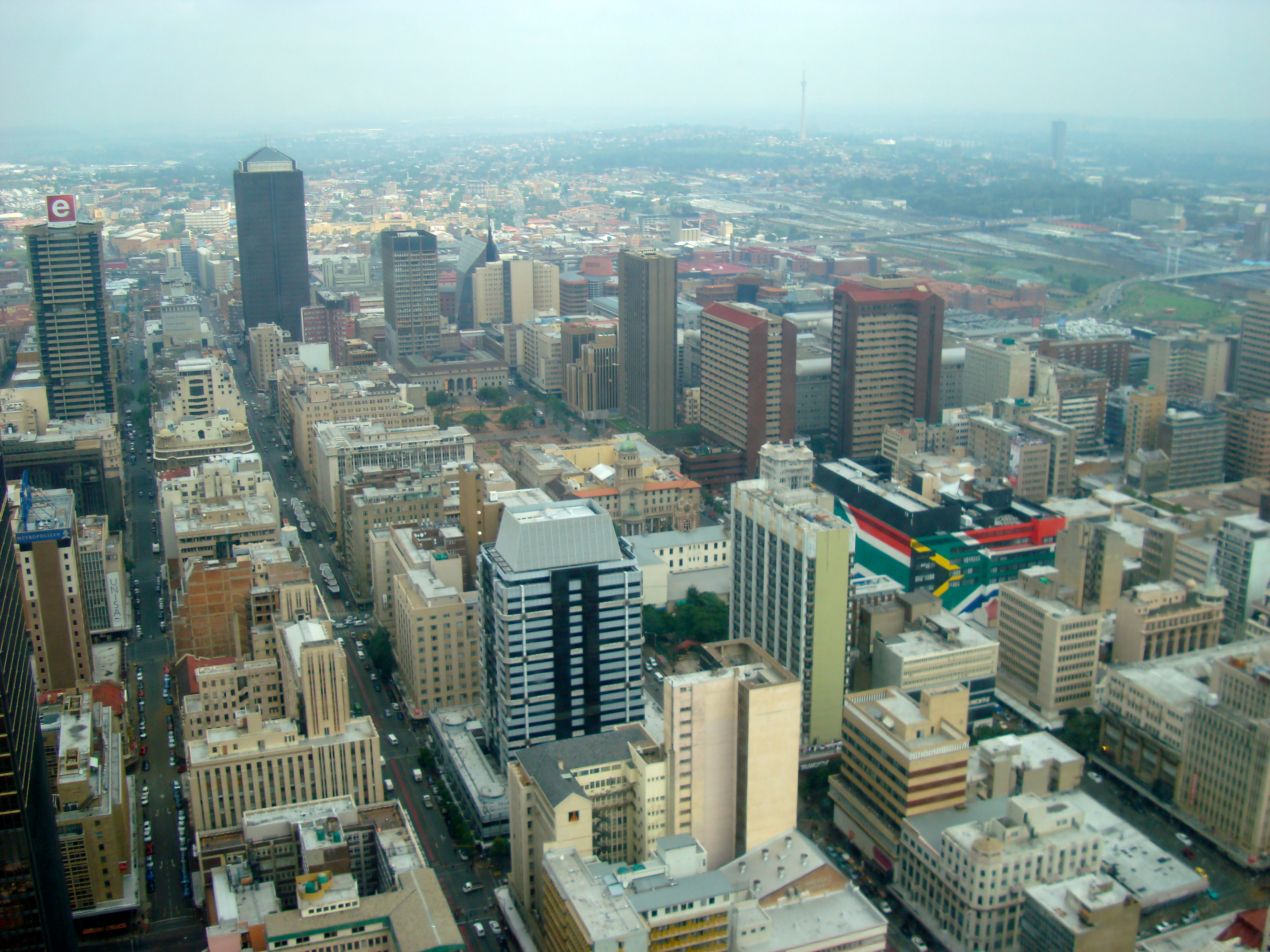 View from the Carlton Centre, Africa's tallest building. Johannesburg, Gauteng, South Africa.